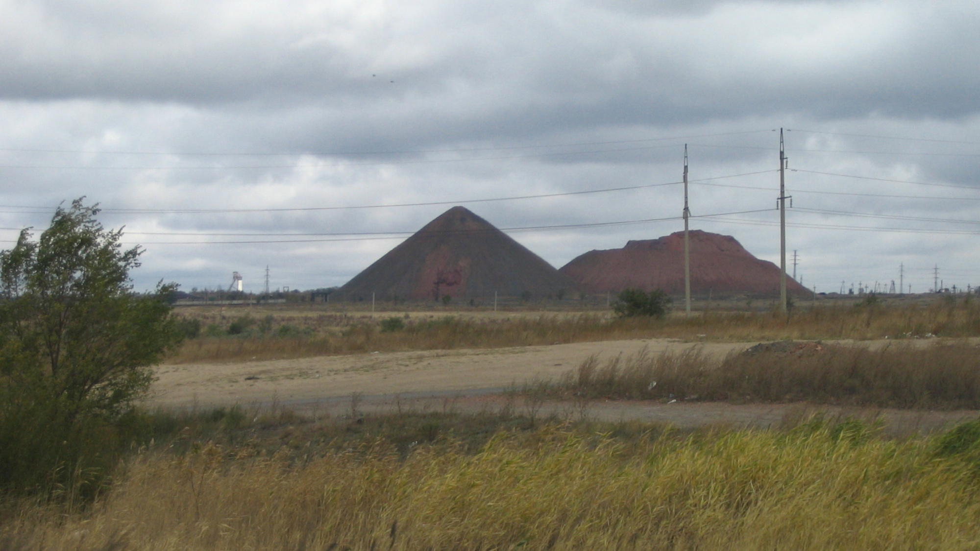 Slag heaps near Karaganda, Kazakhstan